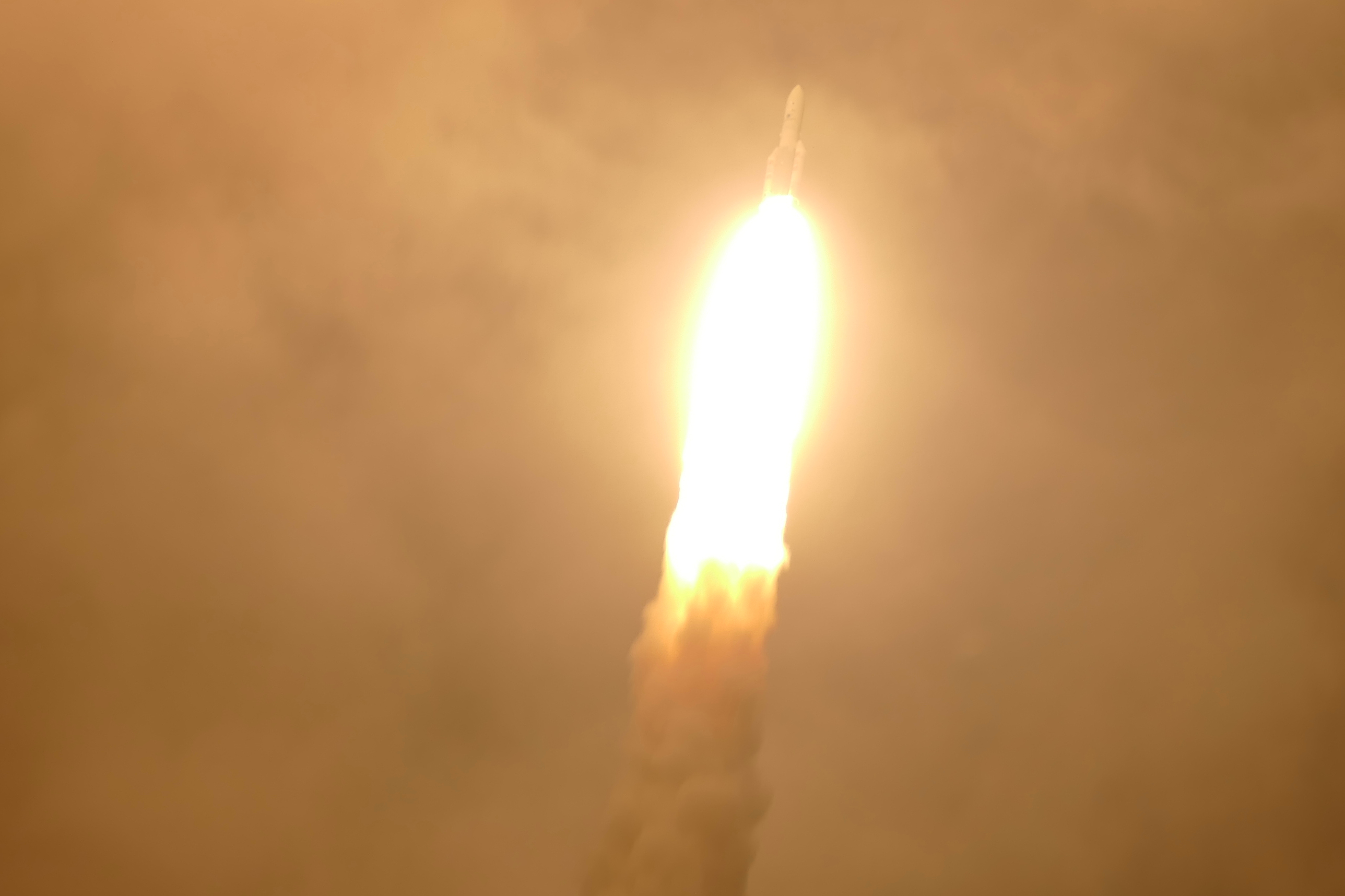 Agami Viewing Site, Guyana Space Centre, Kourou, French Guyana, FRANCE